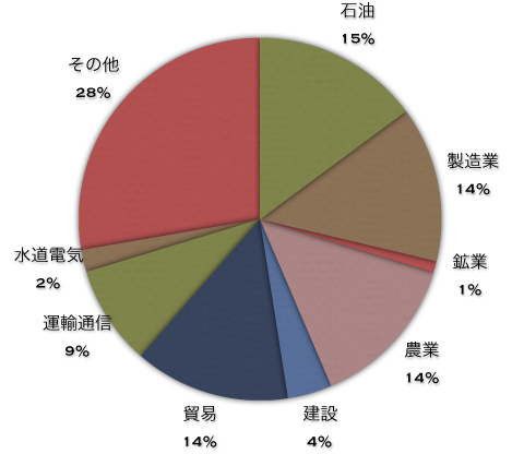 Sectors of the Iranian Economy for 2002. I created this file by using Apple Keynote. Source for raw data: Image:Irecosector.gif